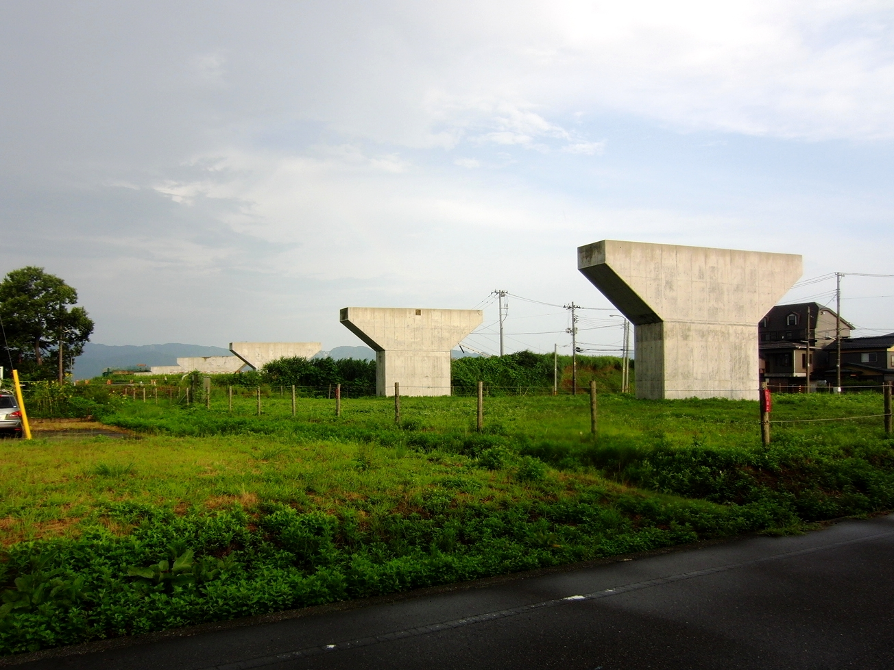 Phoenix Ōhashi Bridge under construction, Shimoyama, Nagaoka, Niigata, Japan.